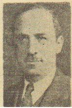 Photo of Rabbi Philip Alstat, used hundreds of times to accompany newspaper articles (including the weekly syndicated column he wrote for over 40 years).